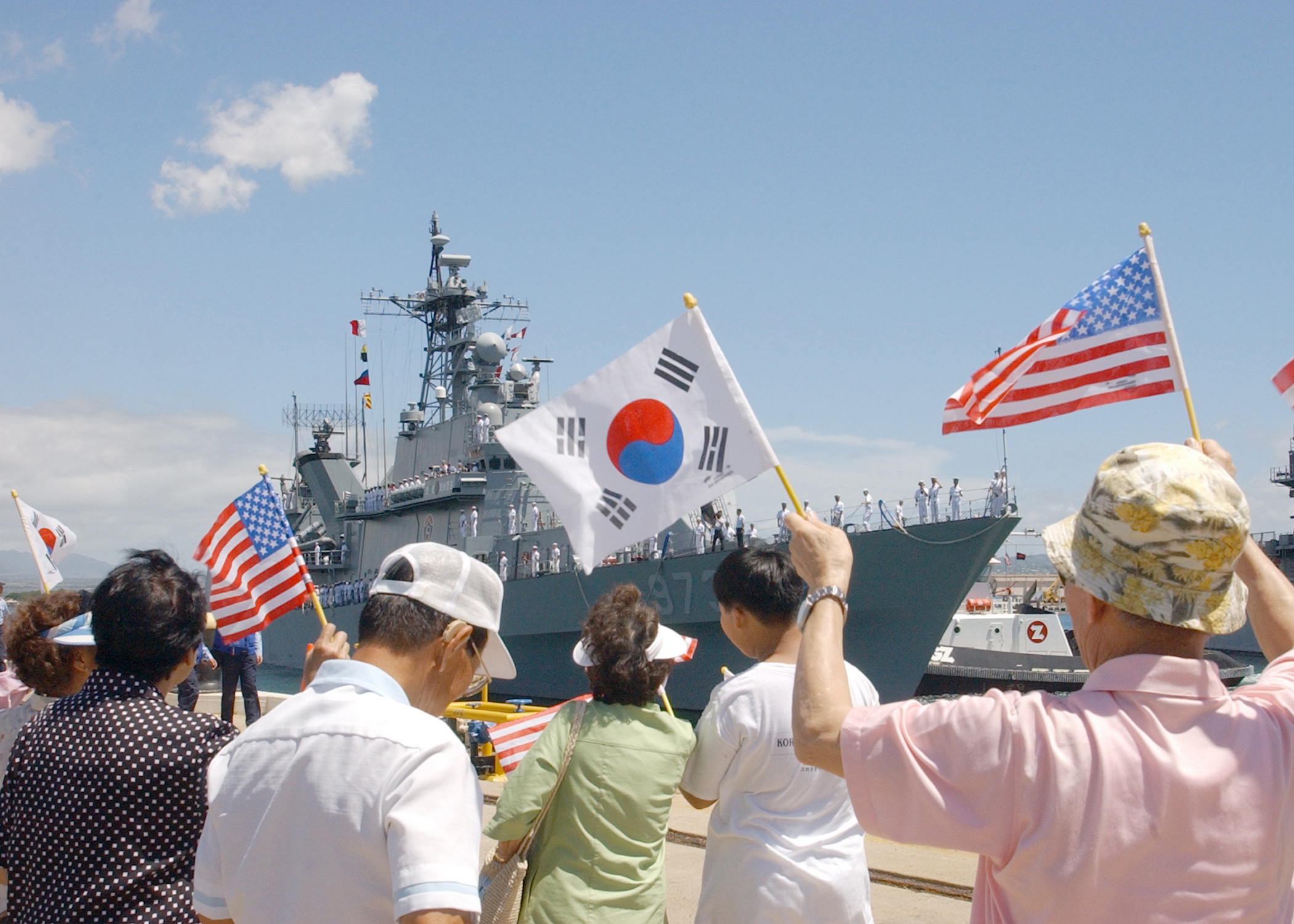 Pearl Harbor, Hawaii (Jun. 24, 2002) -- A group of Korean Americans welcome the Republic of Korea destroyer Yang Man Choon (DDH 973) to Pearl Harbor. The destroyer and the patrol corvette Won Ju (PCC 769) are scheduled to participate in the upcoming RIMPAC 2002 exercise. Rim of the Pacific (RIMPAC) is conducted off the coast of Hawaii to enhance the tactical proficiency between nations throughout the Pacific region. U.S. Navy photo by Photographer's Mate 1st Class William R. Goodwin. (RELEASED)